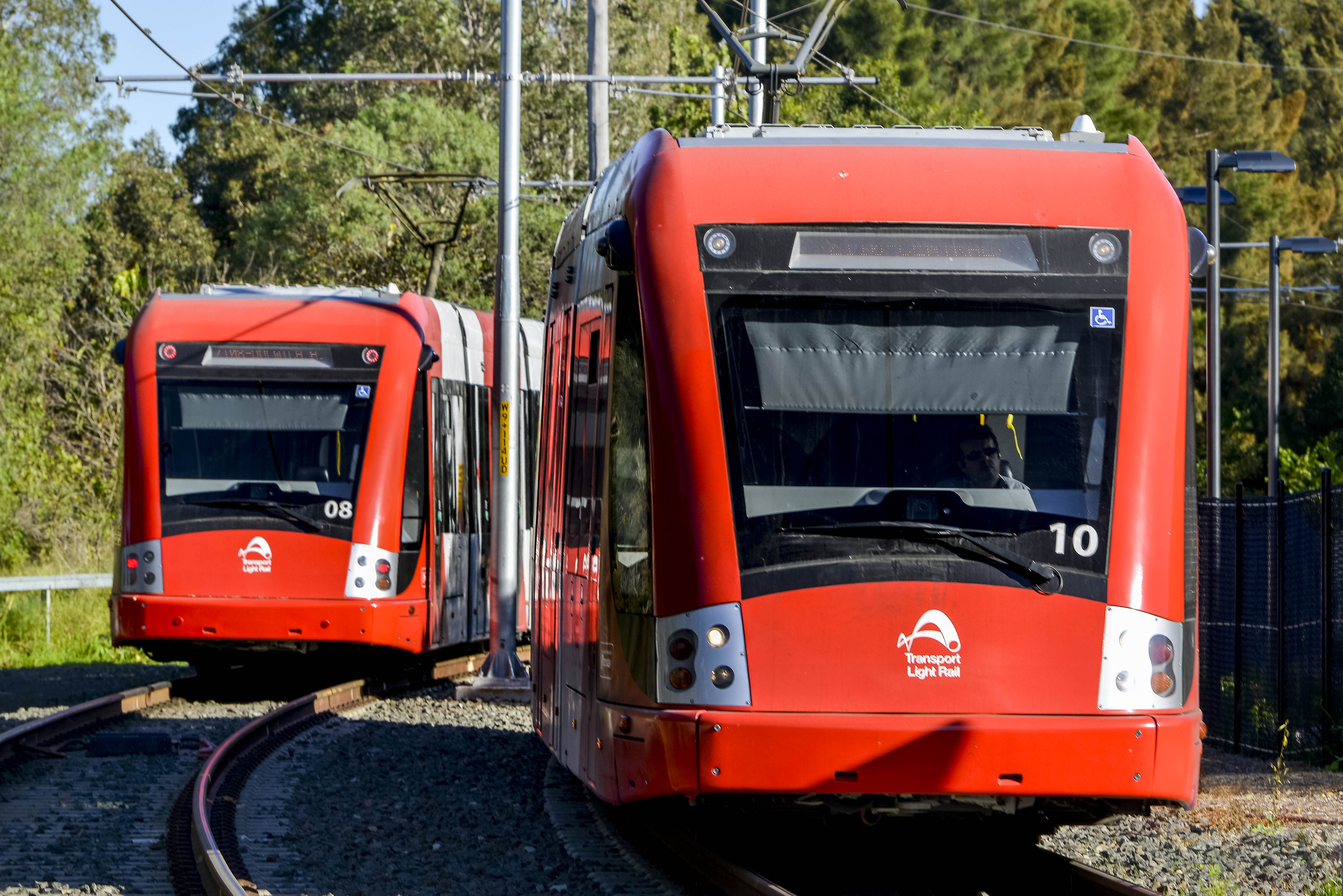 CAF Urbos 2 rail sets on Dulwich Hill Light Rail Line